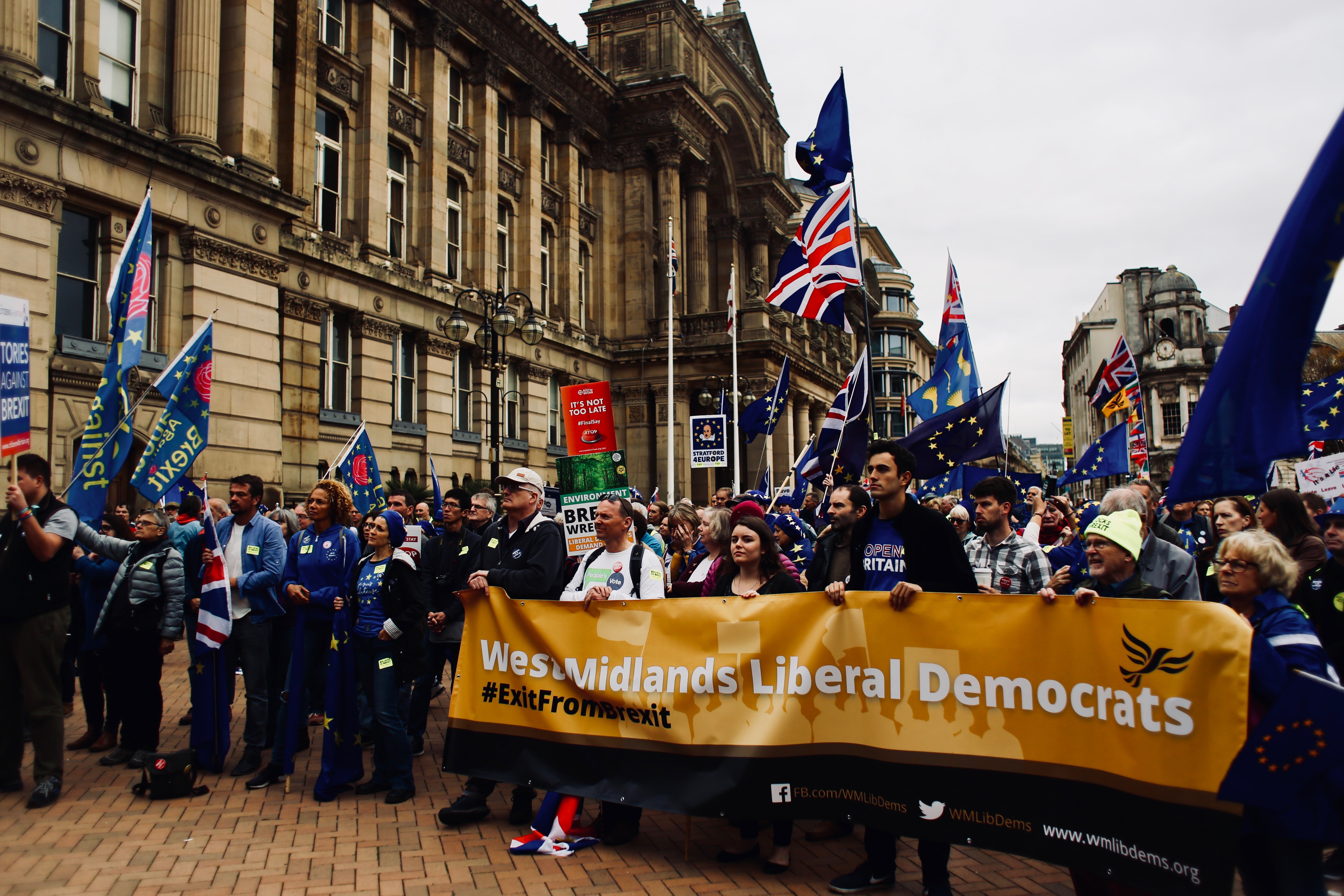 Birmingham Bin Brexit march for a People's Vote on leaving the European Union to coincide with the Conservative Party conference being held in the city. Speakers included AC Grayling, Lord Andrew Adonis, Femi Oluwole, #Remainer Now and Tories Against Brexit. Organised by EU in Brum.